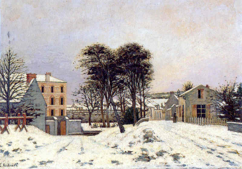 moulin de chauffour